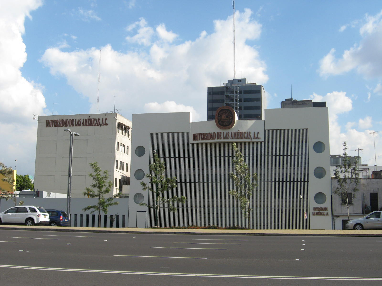 Universidad de las Americas AC on Chapultepec Avenue in Mexico City